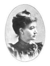 Portrait of women's suffragist leader Lizzie Crozier French (1851–1926), probably taken in the 1890s.